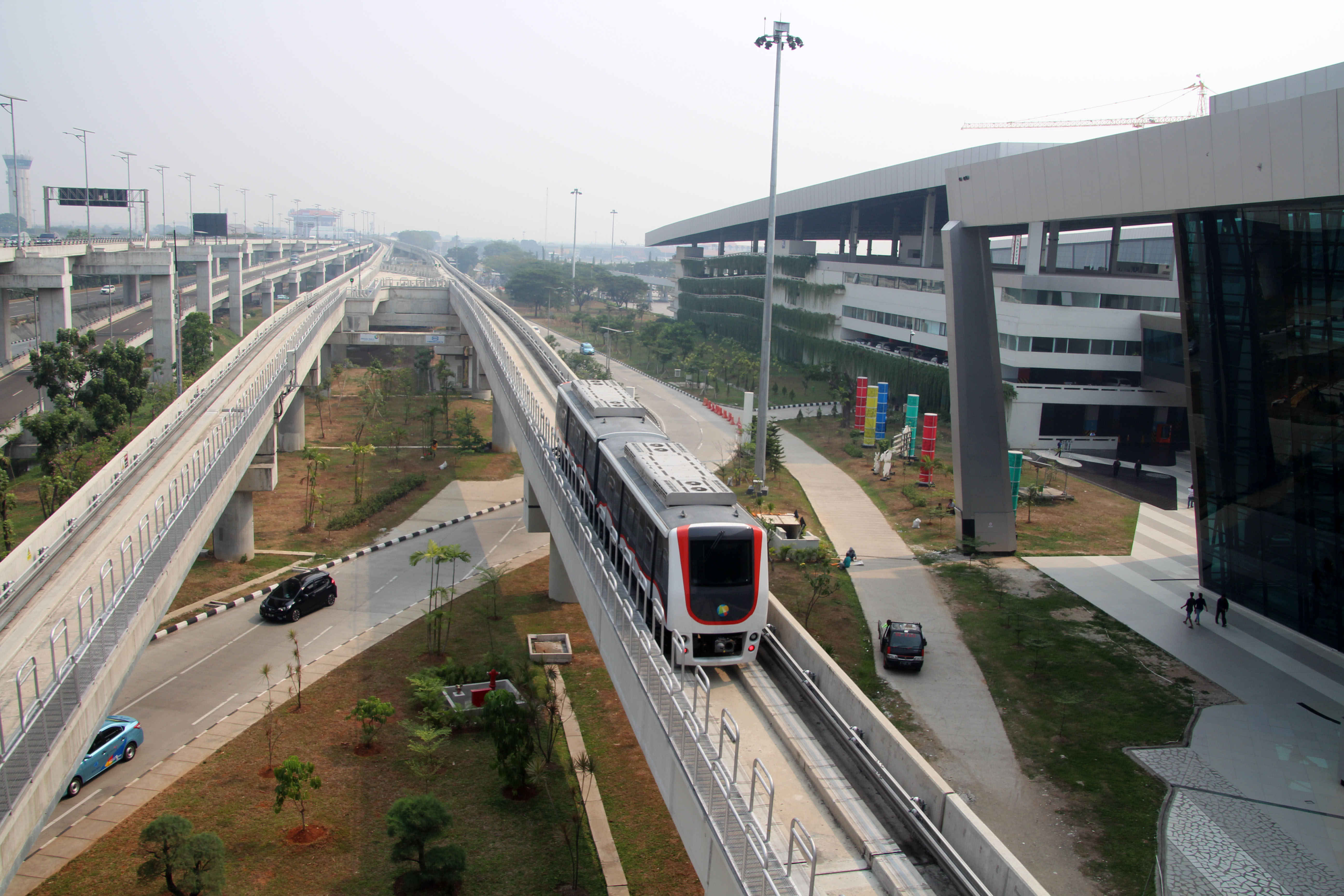 Soekarno-Hatta Skytrain automated people mover leaving Terminal 3 of Soekarno-Hatta International Airport, Jakarta, Indonesia.